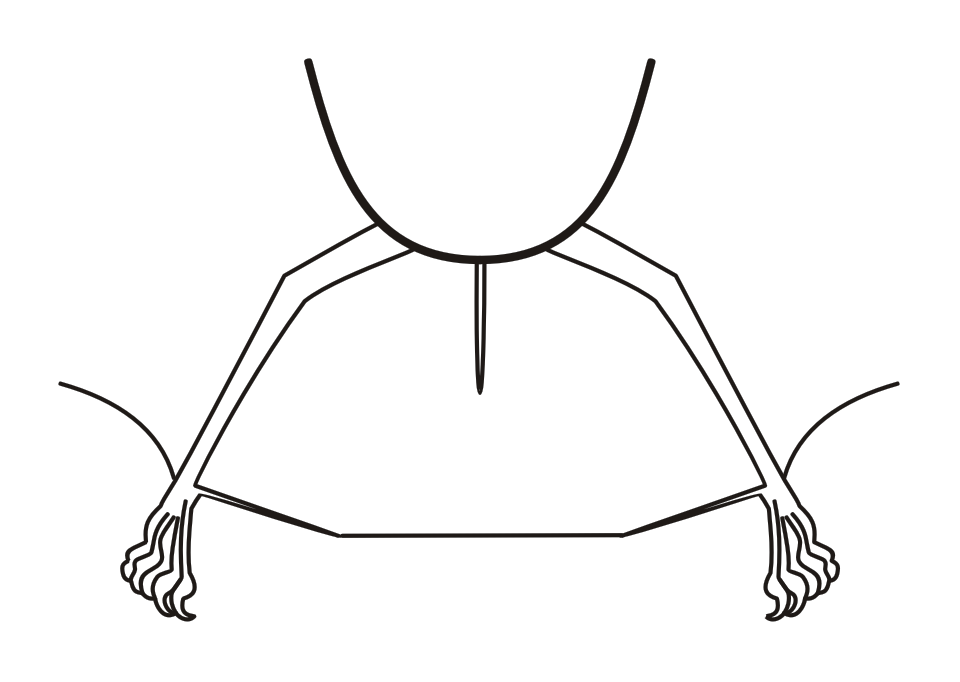 According to Husson, 1962 shows interfemoral membranes, calcar, feet and tail in bats of genus Mimon